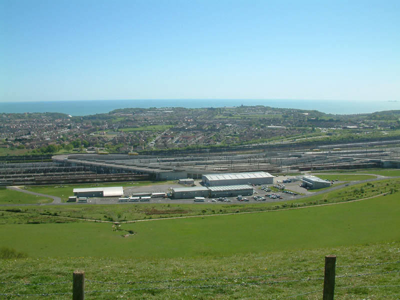 The English-side Channel Tunnel terminal at Cheriton near Folkestone in Kent, from the Pilgrims' Way on the escarpment on the southern edge of Cheriton Hill, part of the North Downs.